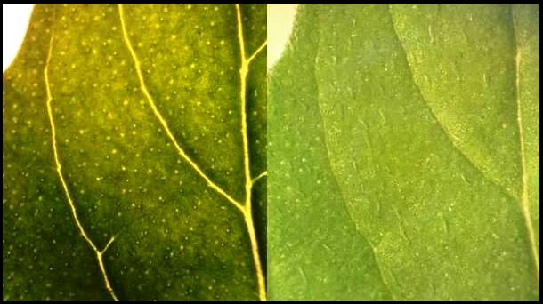 Image of the leaf of Leucanthemum vulgare (NO: prestekrage), possibly a Leucanthemum vulgare x superbum.Photo with 20x binocular microscope, taken with iPhone 5s cellphone camera. The two images have, alternatively, light source from below (left) and from above (right).